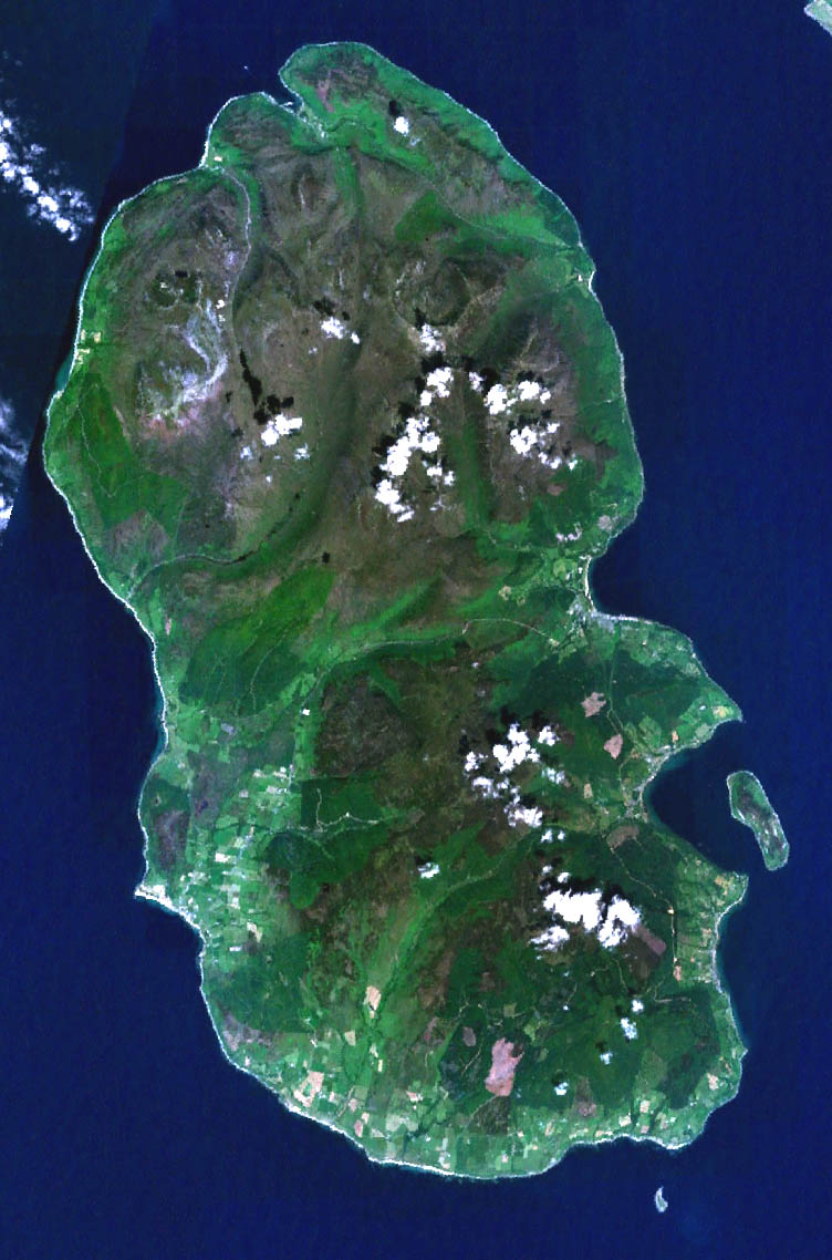 Landsat image of the Isle of Arran in Scotland.